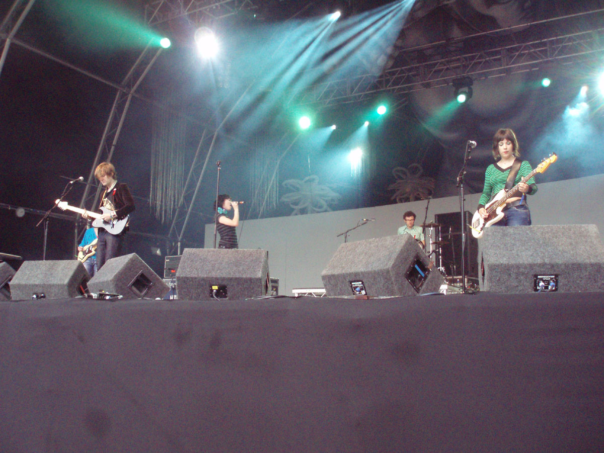 The Long Blondes are a 5-piece English indie rock band from Sheffield. Here at Summer Sundae in Leicester, 13/08/06 (Sunday).